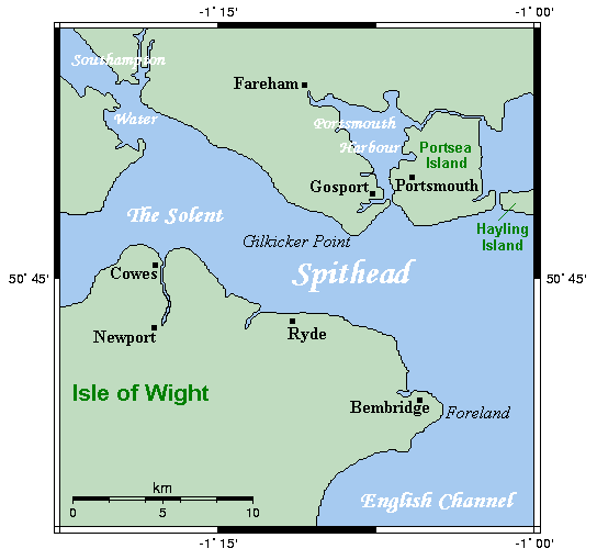 Map of Spithead and environs. This map's source is here, with the uploader's modifications, and the GMT homepage says that the tools are released under the GNU General Public License.